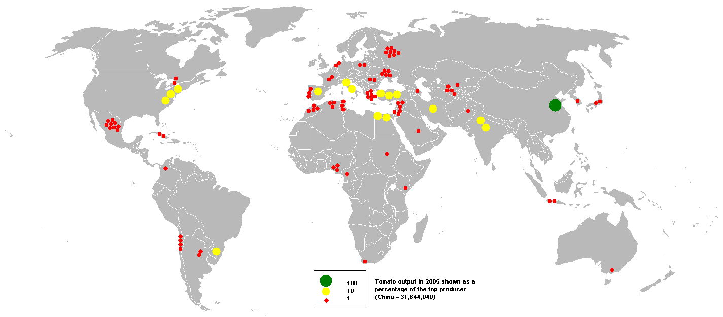 This bubble map shows the global distribution of tomato output in 2005 as a percentage of the top producer (China - 31,644,040 tonnes). This map is consistent with incomplete set of data too as long as the top producer is known. It resolves the accessibility issues faced by colour-coded maps that may not be properly rendered in old computer screens. Data was extracted on 14th June 2007 from Based on :Image:BlankMap-World.png